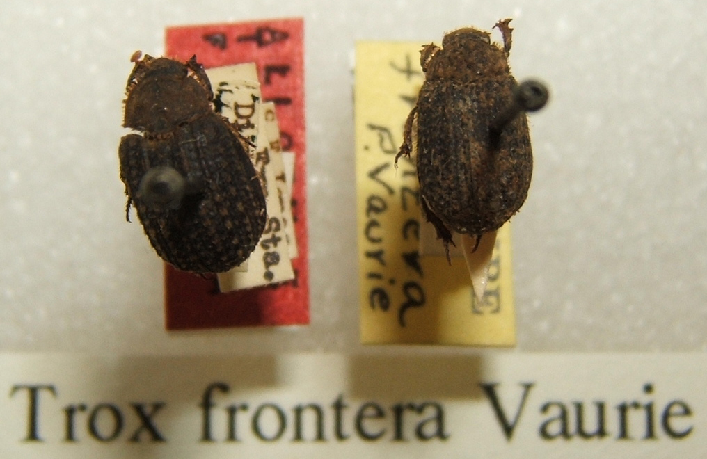 Trox frontera adult taken by Shawn Hanrahan at the Texas A&M University Insect Collection in College Station, Texas. Cropped version: Trox frontera sjh.cropped.jpg